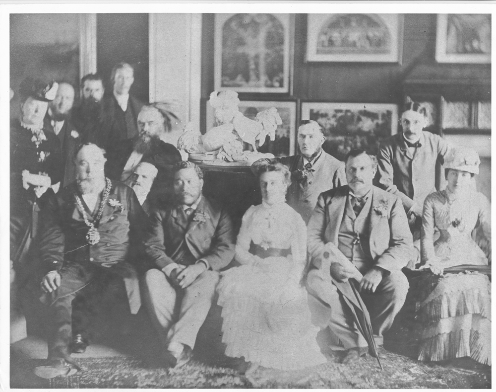 Kalakaua and his chamberlain Col. C. H. Judd, guests at Normalhurst, estate of Sir Thomas and Lady Brassey, near Hastings, England.